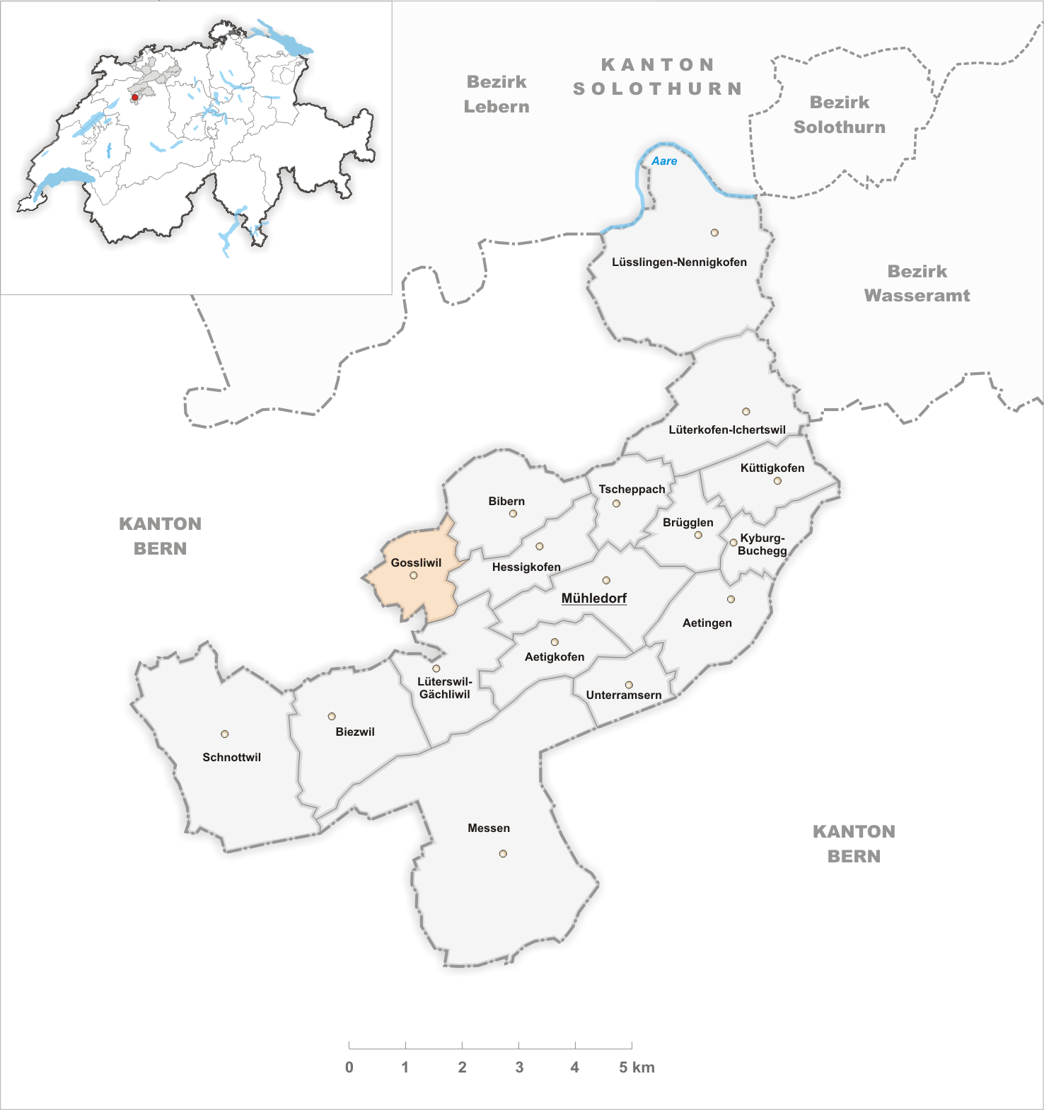 Municipality Gossliwil